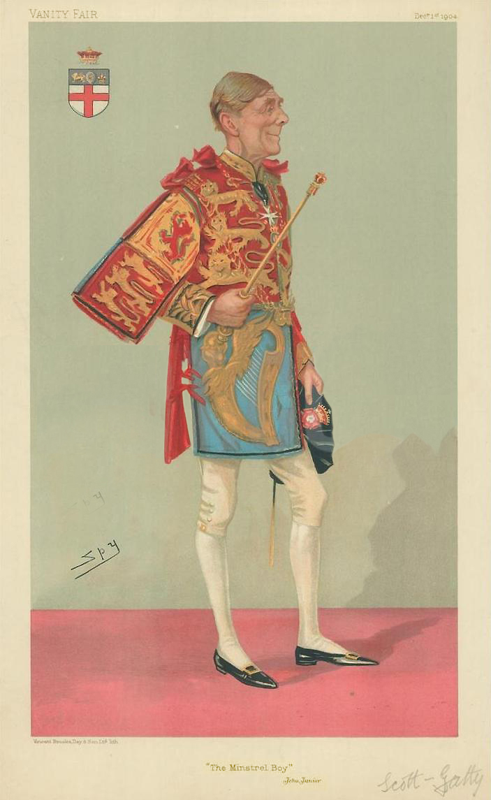 Caricature of Sir Alfred Scott Scott-Gatty, officer of arms, in his ceremonial dress. Caption read "The Minstrel Boy".